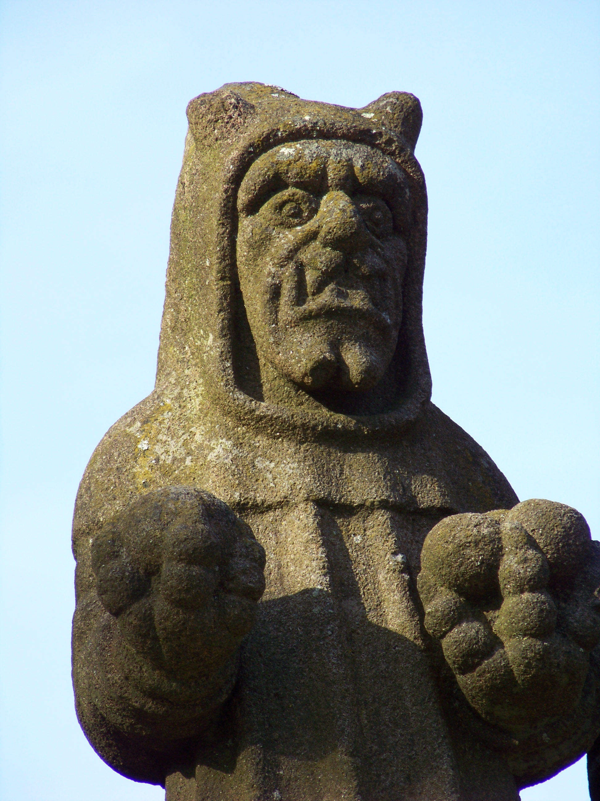 The calvary, Plougastell Daoulaz, Finistere, Brittany .